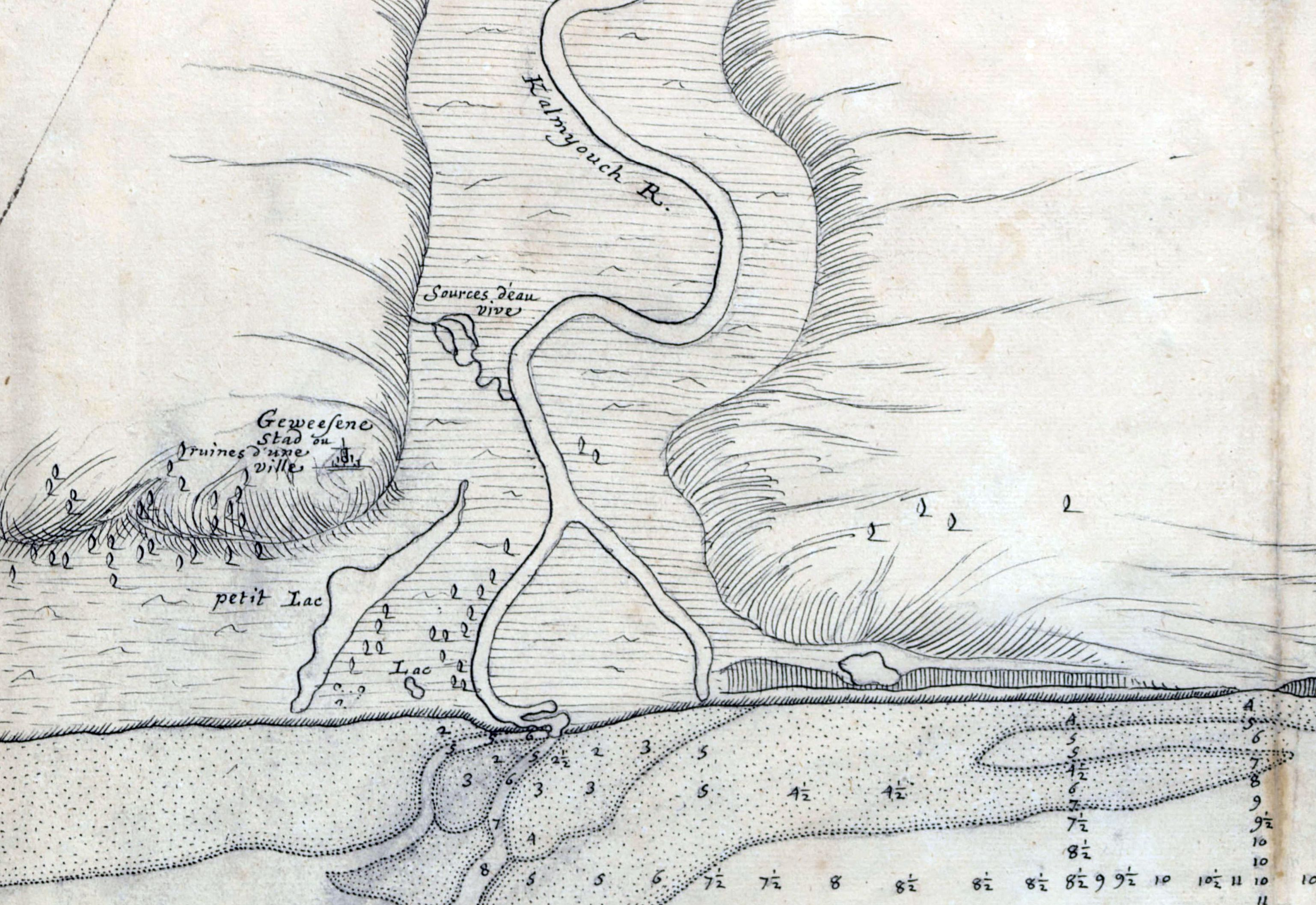 Francophone map Peter Bergman of the river Kalmius mouth (1702)